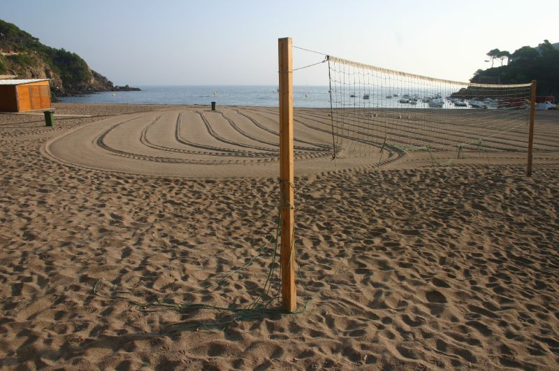 Sandboni